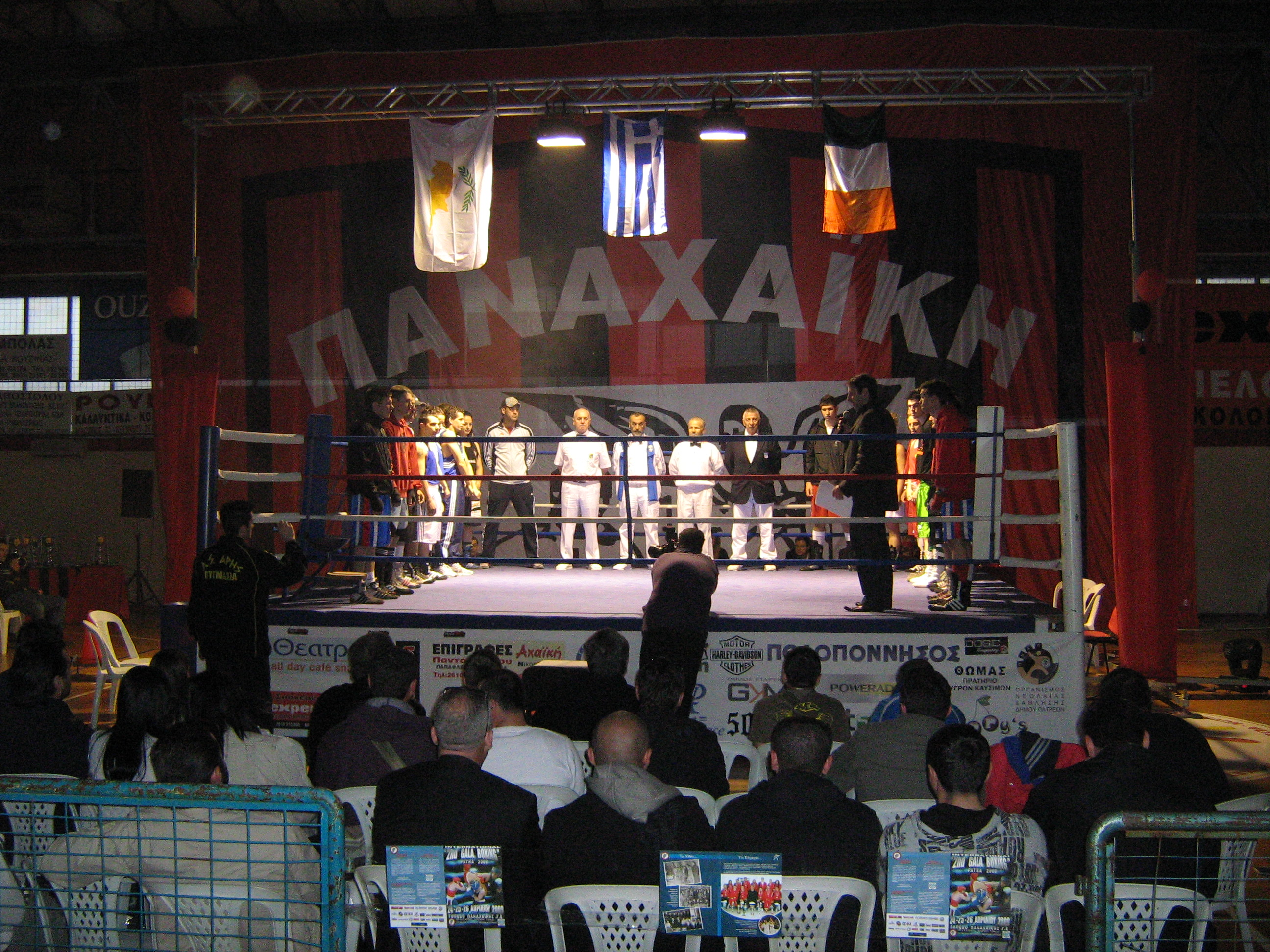 Panachaiki 2h Boxing Gala Evaggelos Mavropoulos 2009